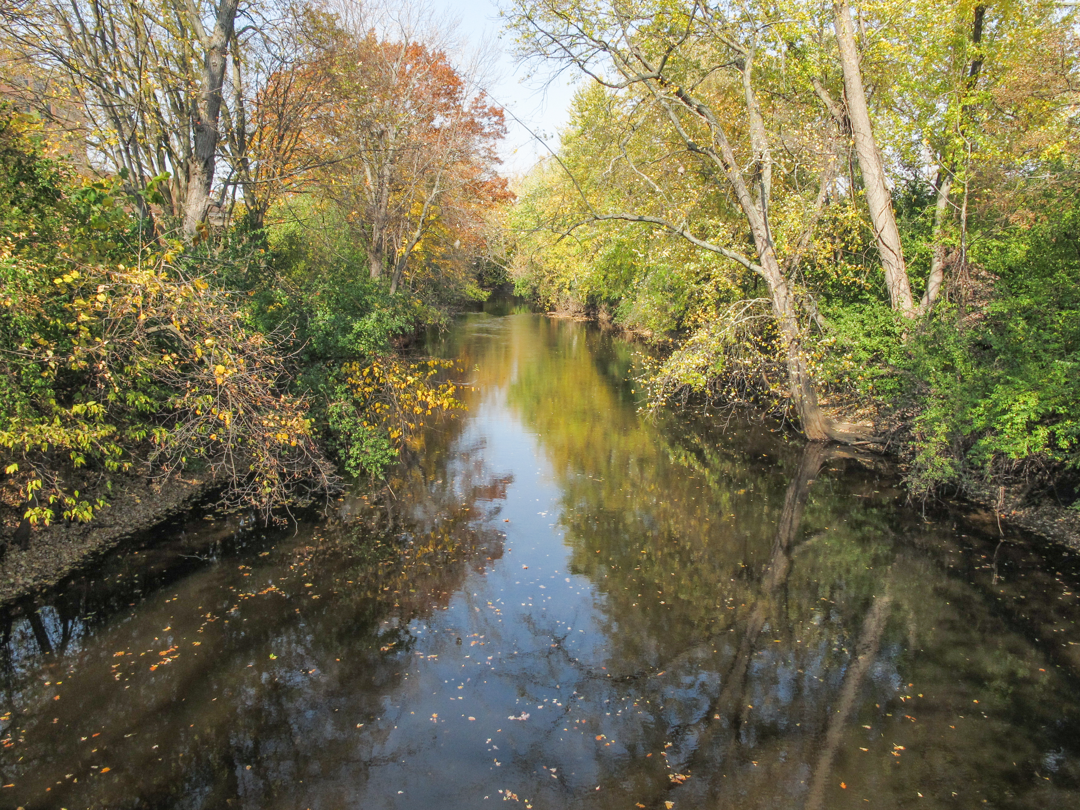 The Red Cedar River as viewed from a pedestrian bridge east of South Harrison Road, on the campus of Michigan State University in East Lansing